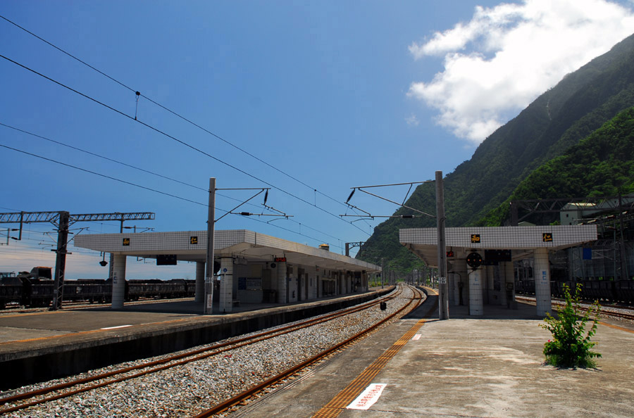 HeRen Station is a local train station of North-Link Line, part of Taiwan's eastern rail line. It is located within the boundary of SiouLin Township, HuaLien County. This photo shows the platforms of HeRen Station. One thing unusual about the station is that, the ticket office is located on platform one.